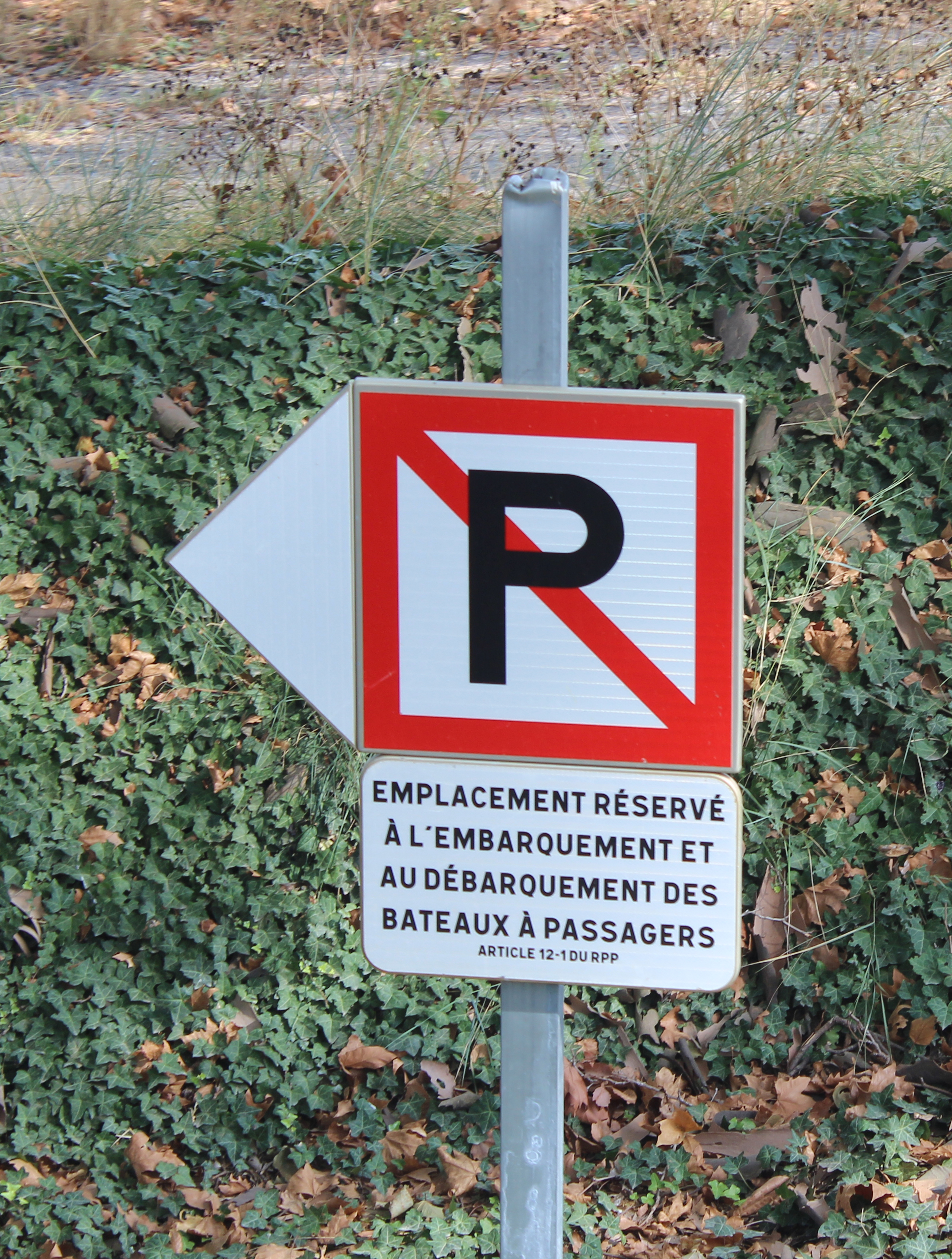 Mooring restricted for passenger embarkation and disembarkation only. Sign on the Canal du Midi, France. Note the square shape used on waterways, otherwise similar to the equivalent road-side sign.